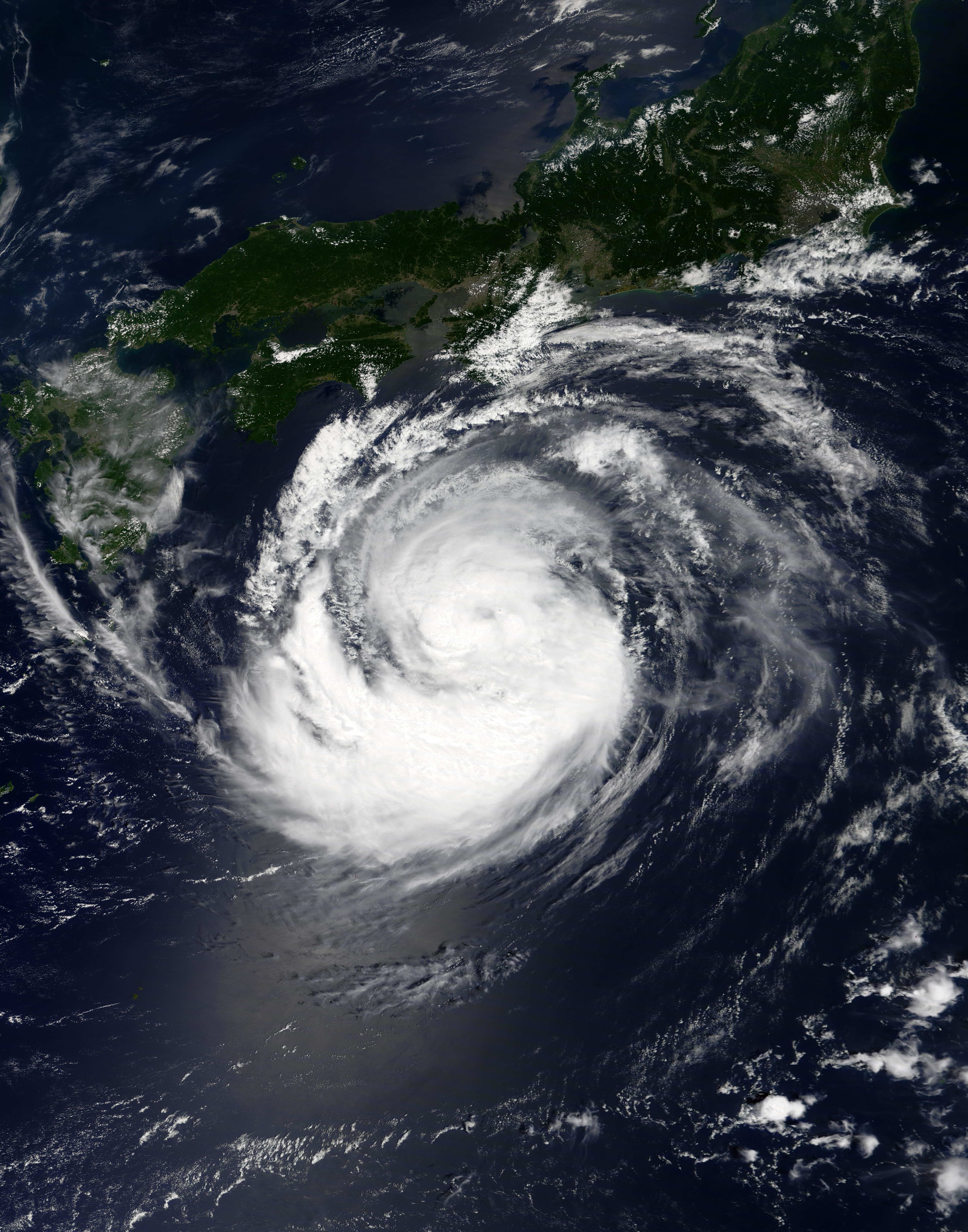 Severe Tropical Storm Francisco shortly before becoming a typhoon on August 5, 2019.